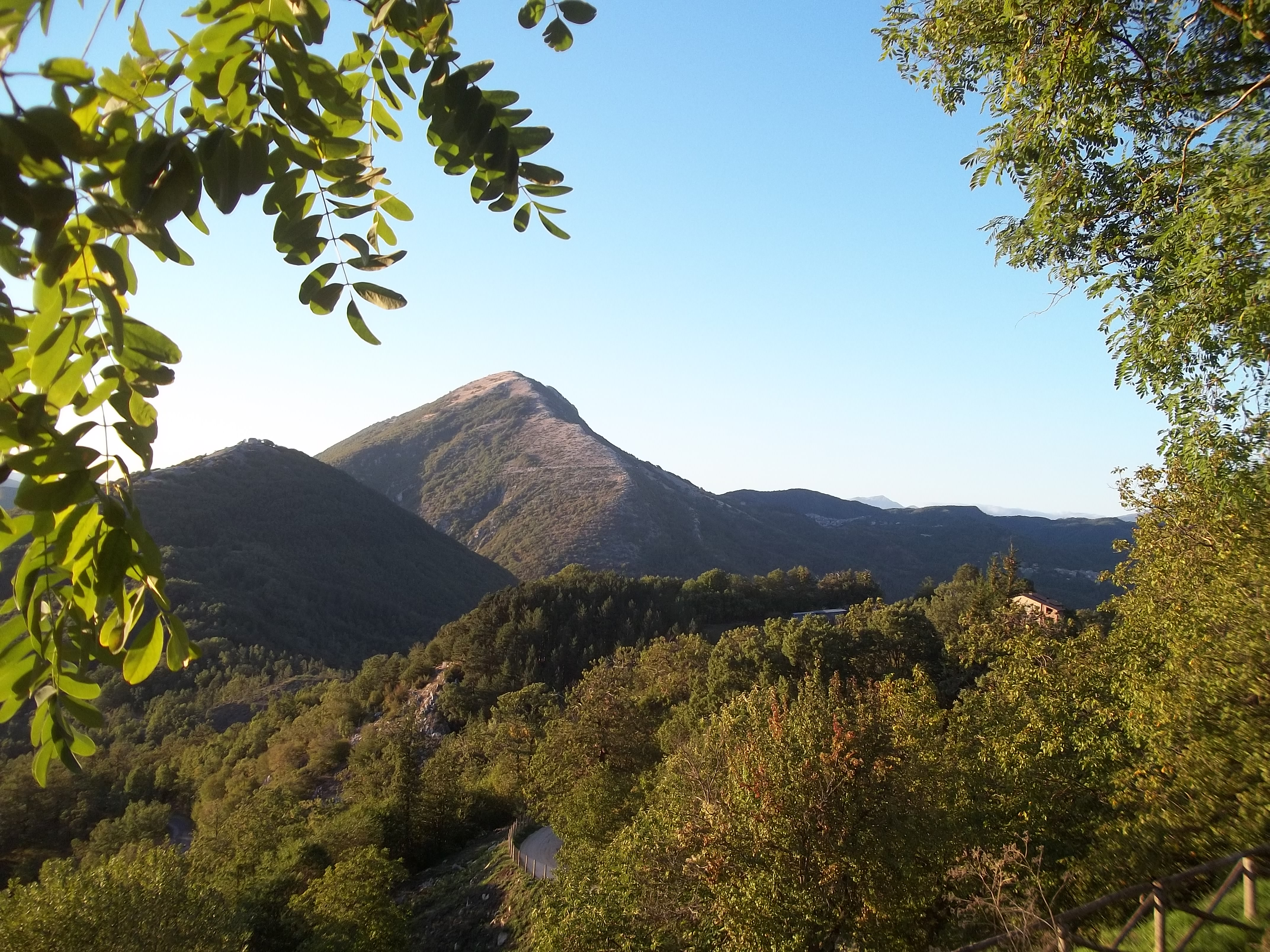 mountain, latium, italy